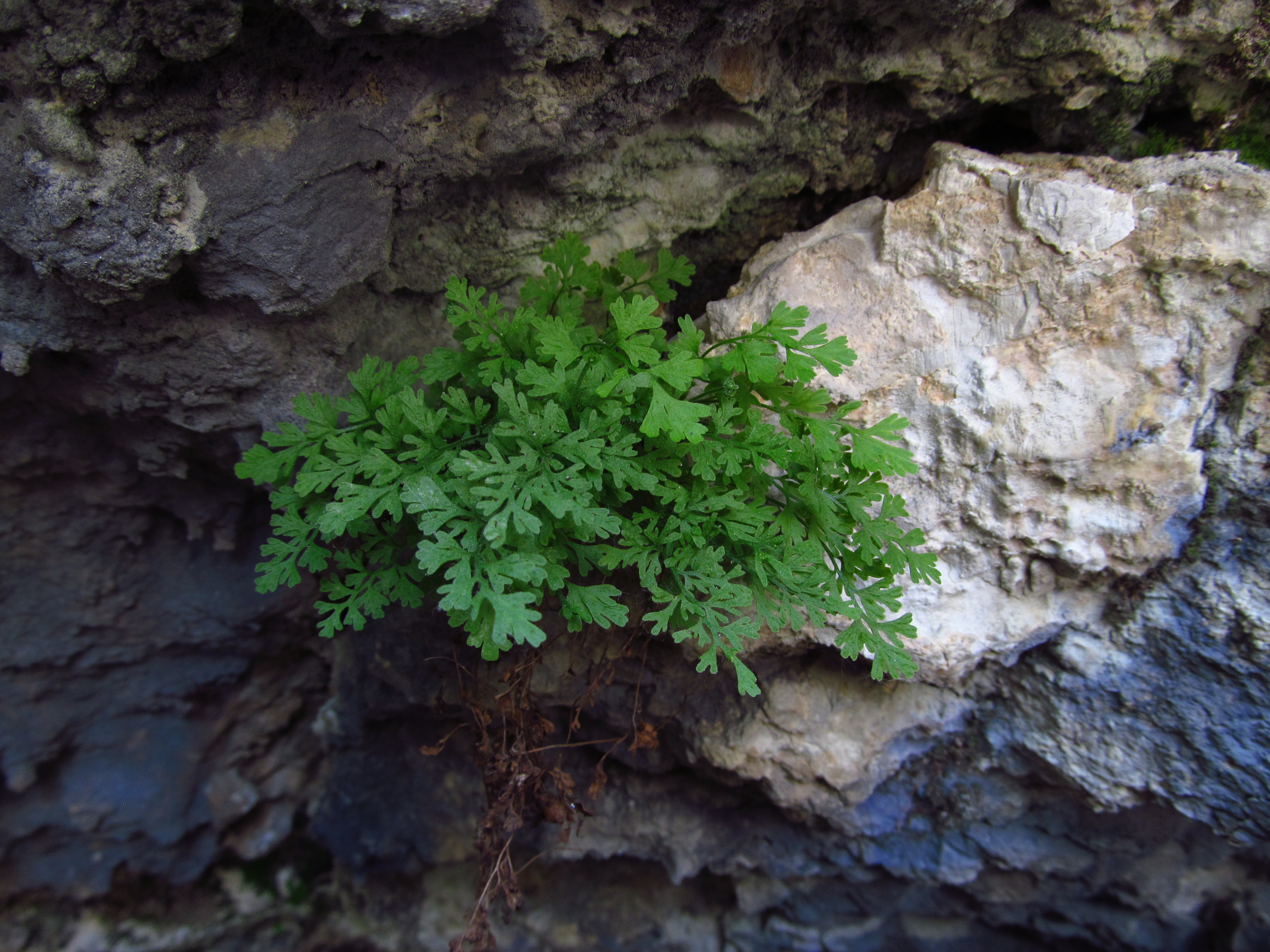 Spleenwort